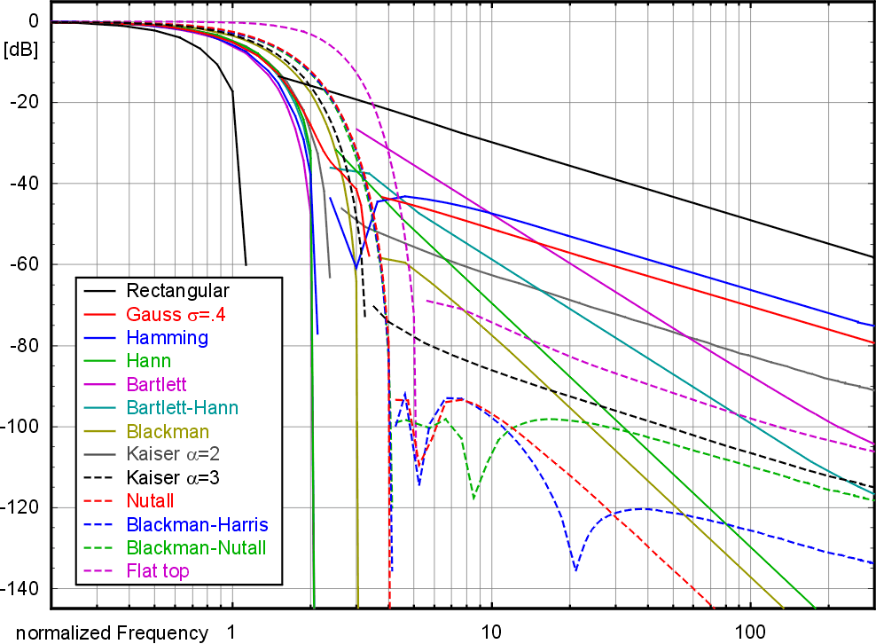 Comparison of different window functions